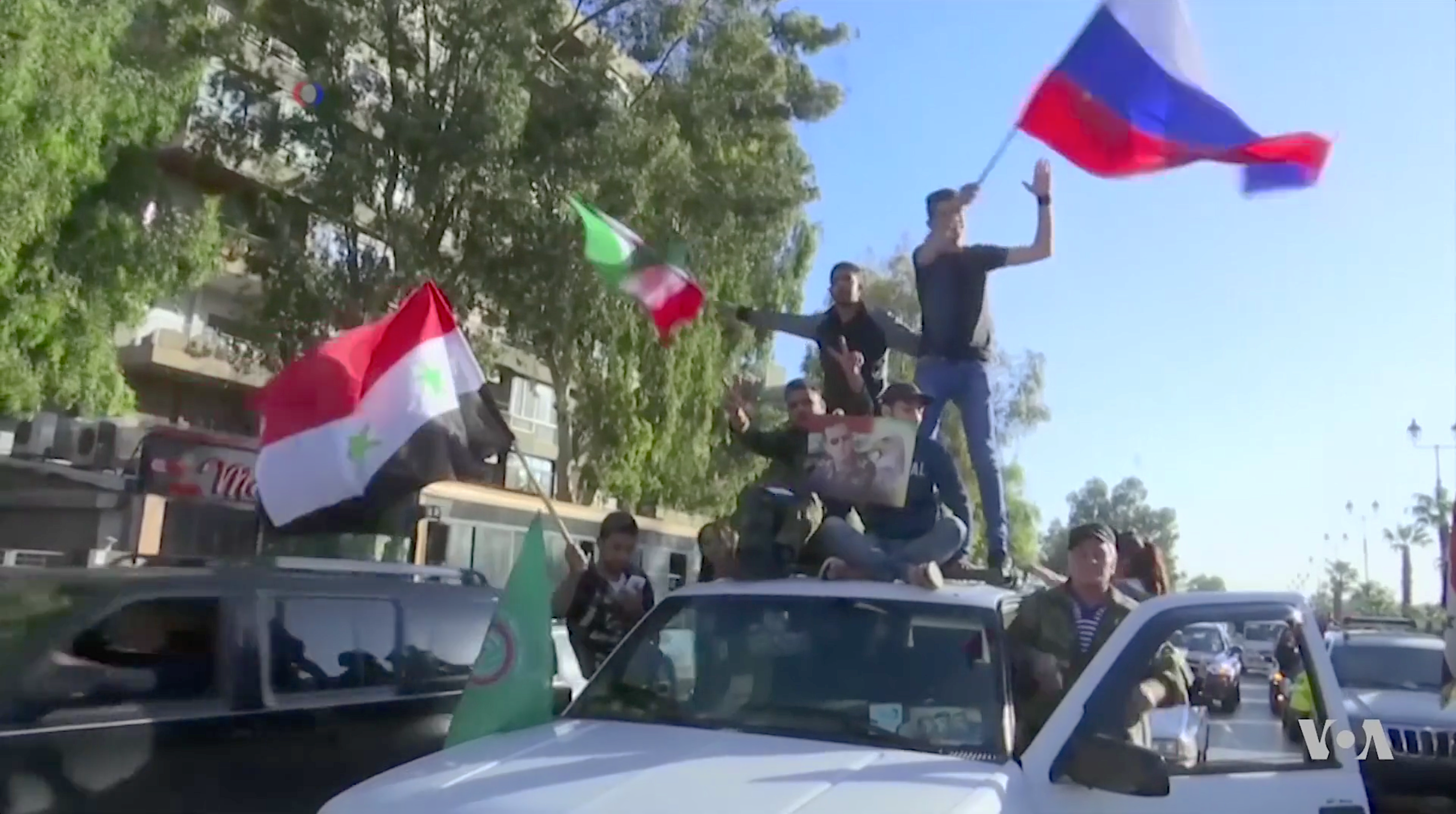 Syrians demonstrating in support of the Iranian, Russian and Syrian governments following the 2018 bombing of Damascus and Homs.